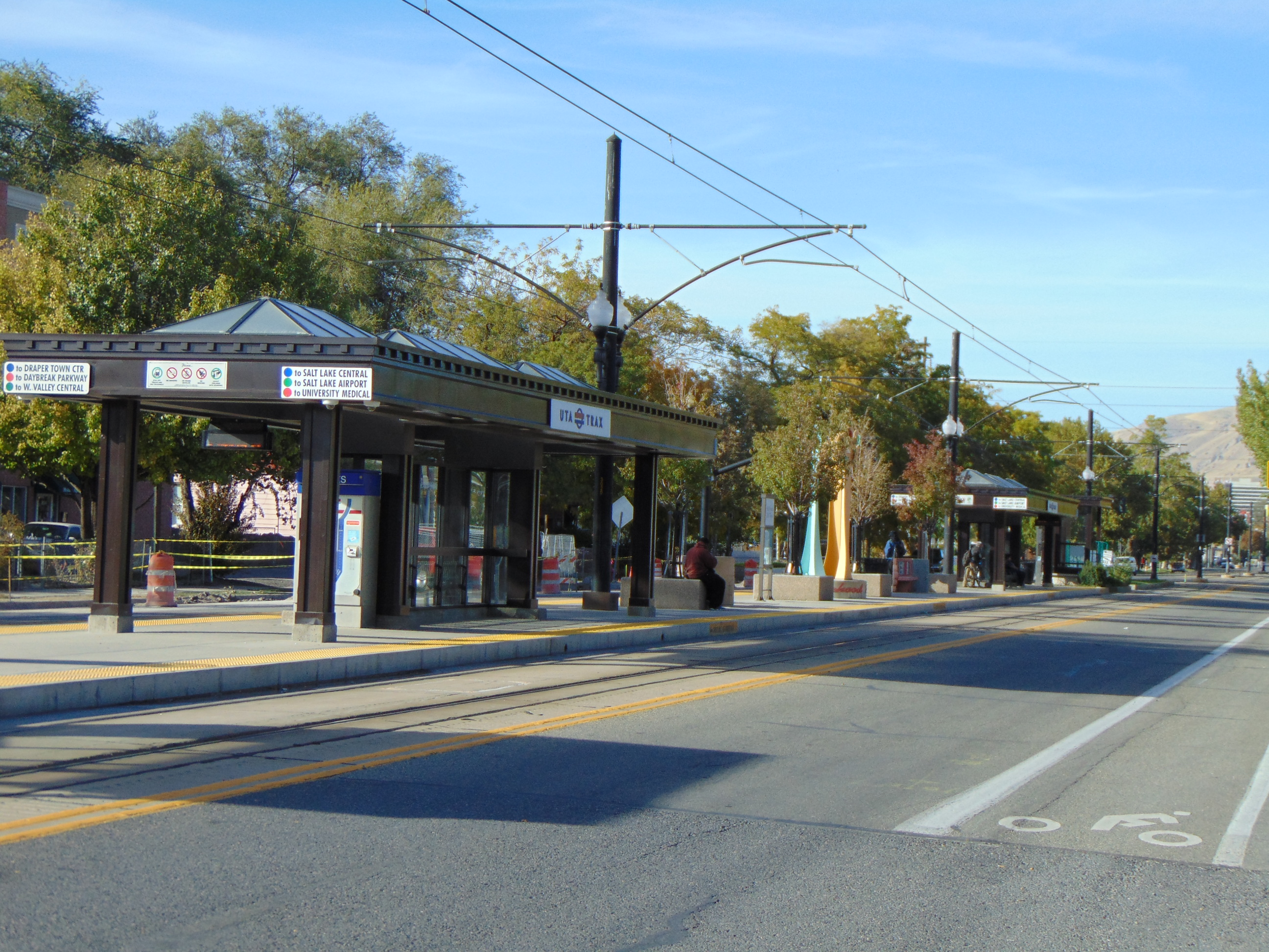 Looking northwest at the passenger platform at the Ballpark station in Salt Lake City, Utah, October 2016